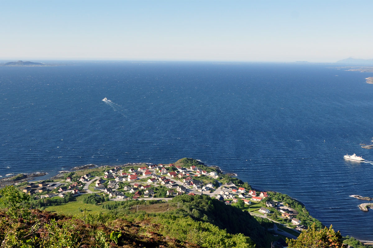 Synnaland seen from Synnalandshornet at south.